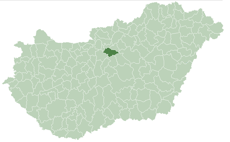 Location of subregion Gödöllő, Hungary